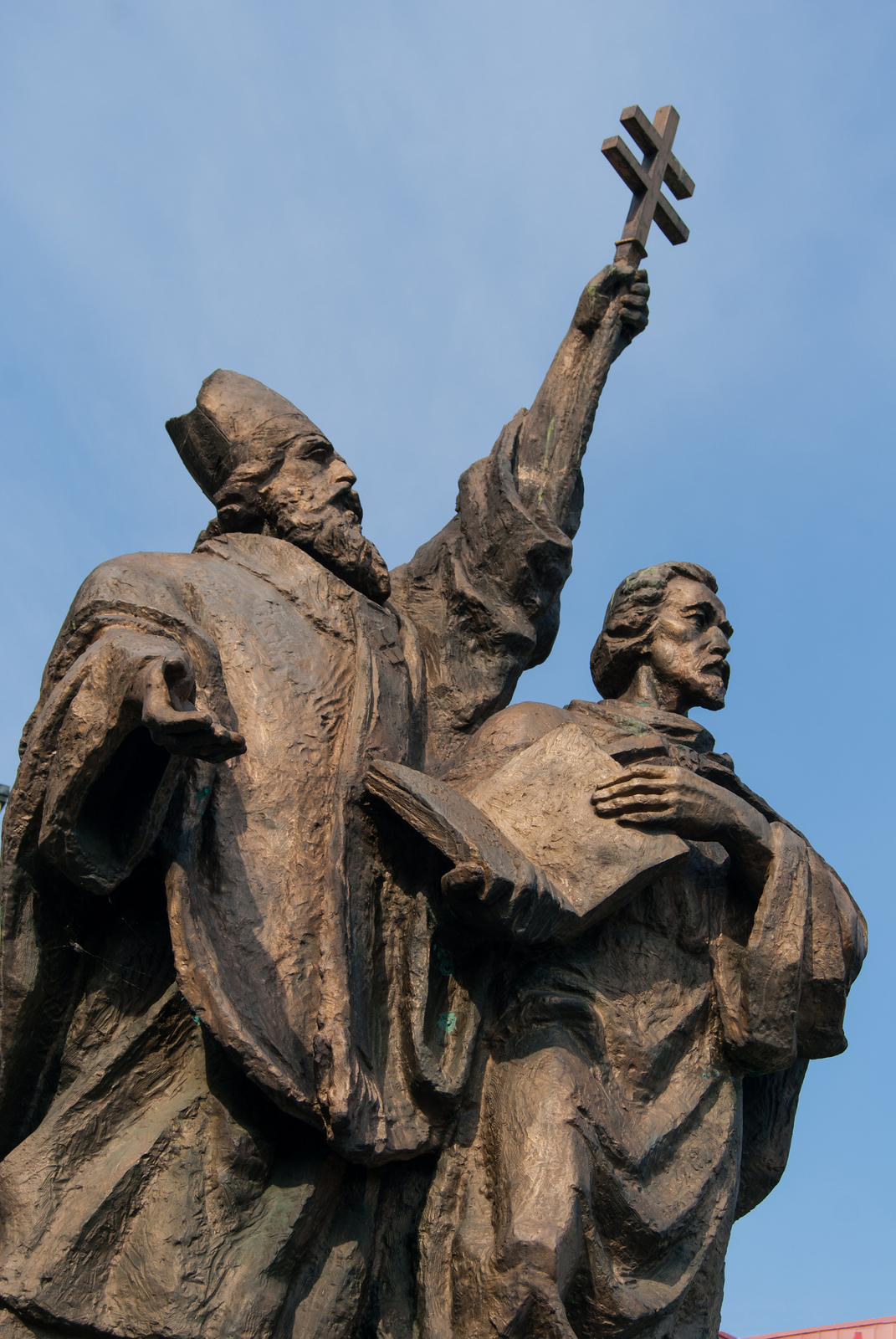 the statue of Cyril and Metod in the Slovak city of Žilina by Ladislav Berák (year 2000)